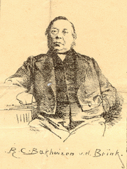 Reinier Cornelis Bakhuizen van den Brink (1810-1865). Drawing by Willy Steelink